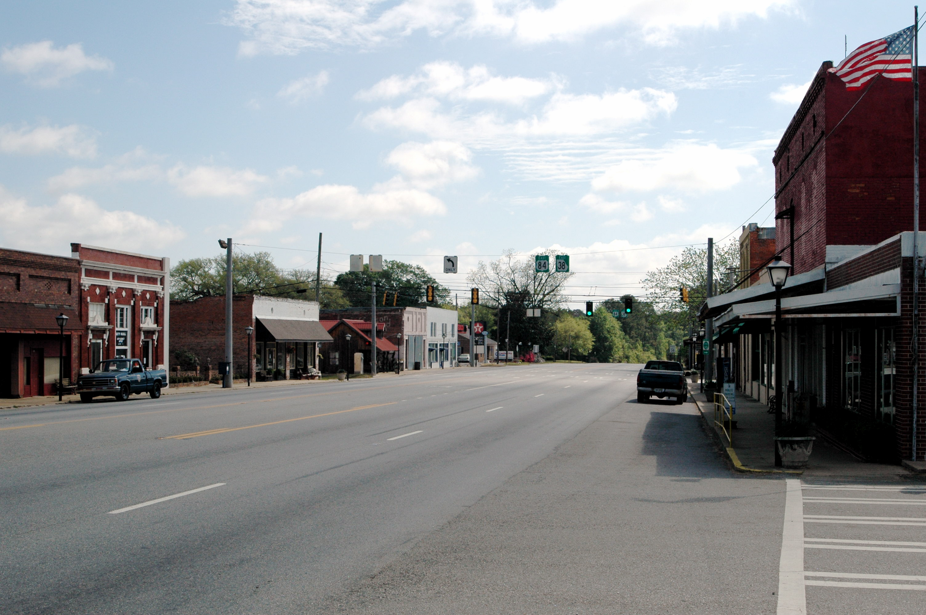 Photo Source: I took it. Photo Date: 04/07/07